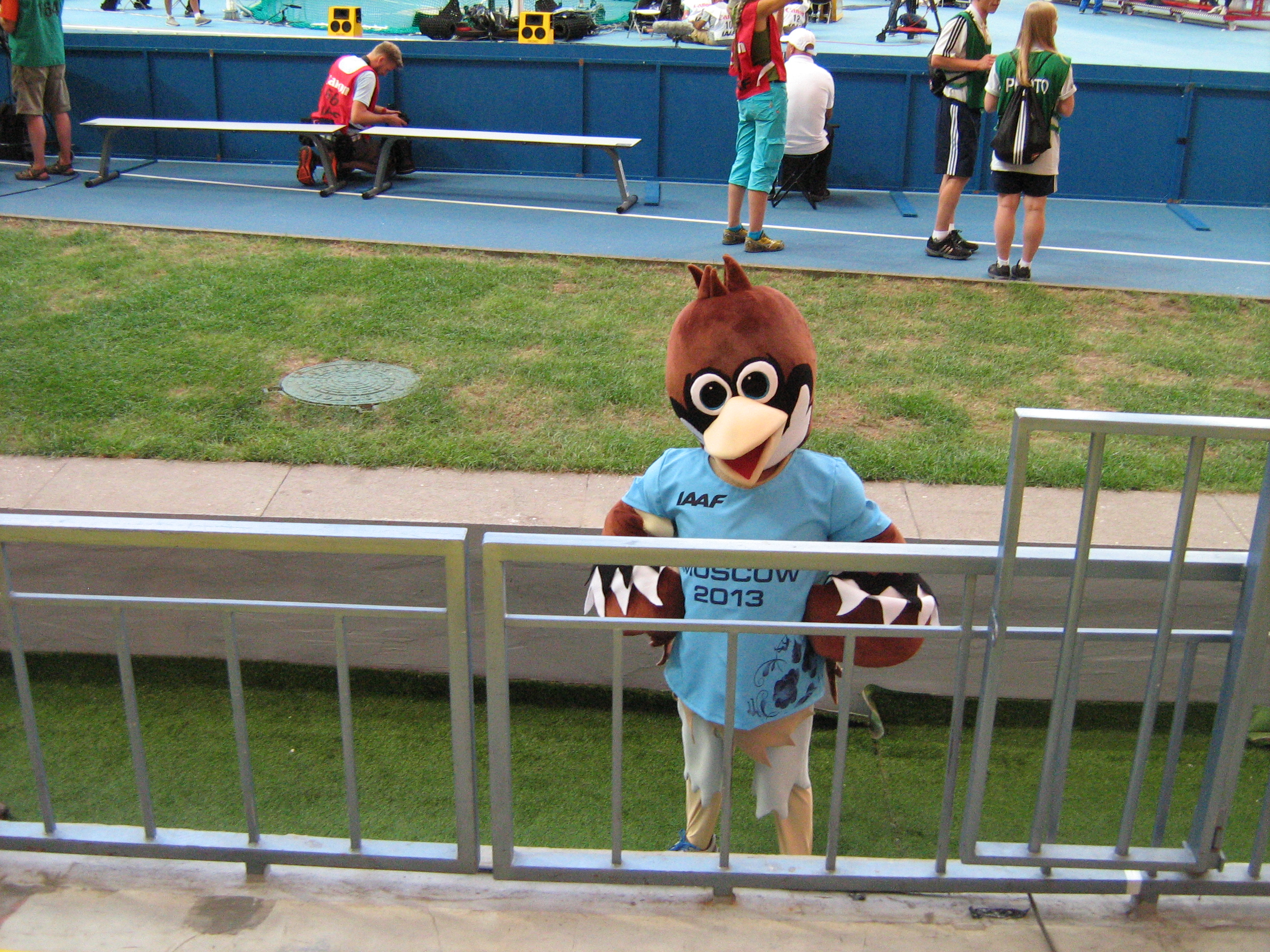 The second day of the World Championships in Athletics in Moscow 2013